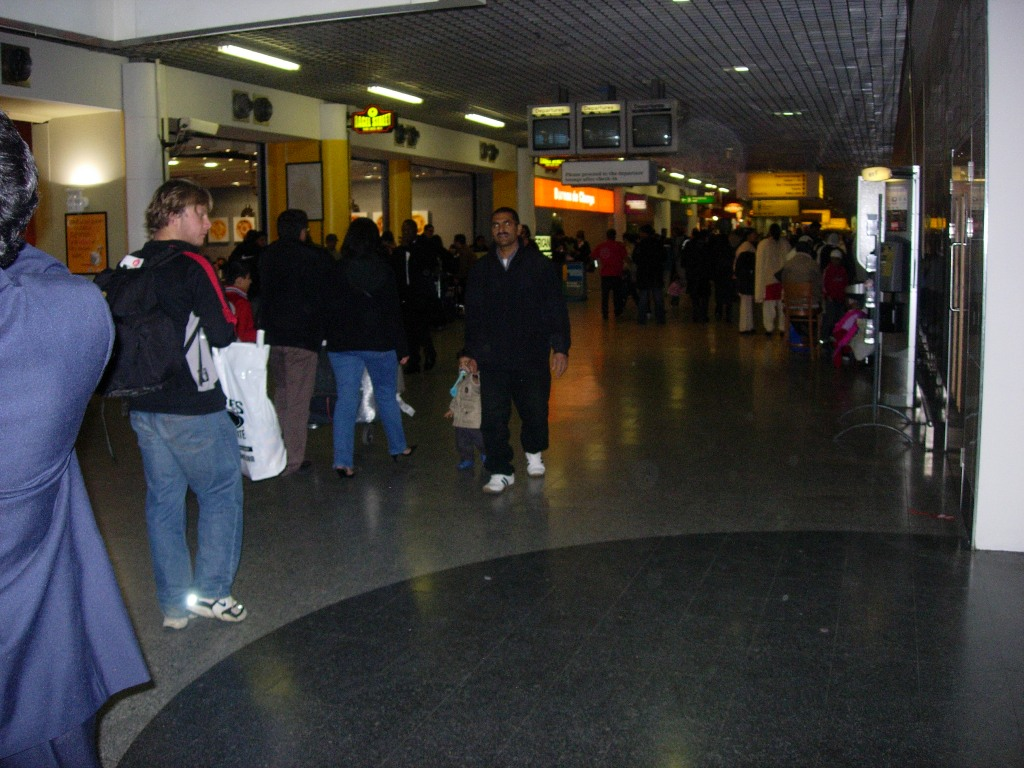 I took this picture myself on the 14th February 2005 in the Departures area of London's Heathrow Airport.